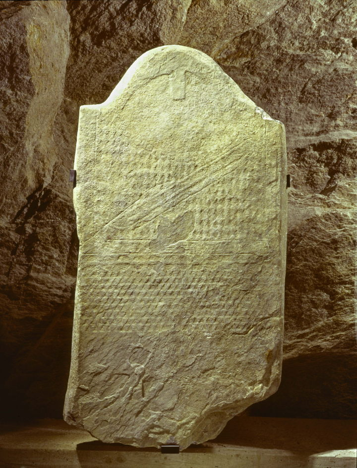 Anthropomorphic stele no 25, Sion, Petit-Chasseur necropolis, Neolithic